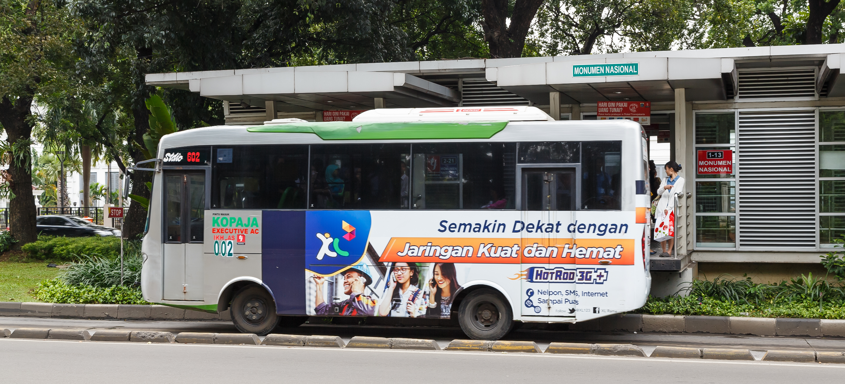 Jakarta, Indonesia: A gas operated "TransJakarta" bus at the bus stop "Monumen Nasional".